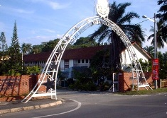 source is self taken in malaysia